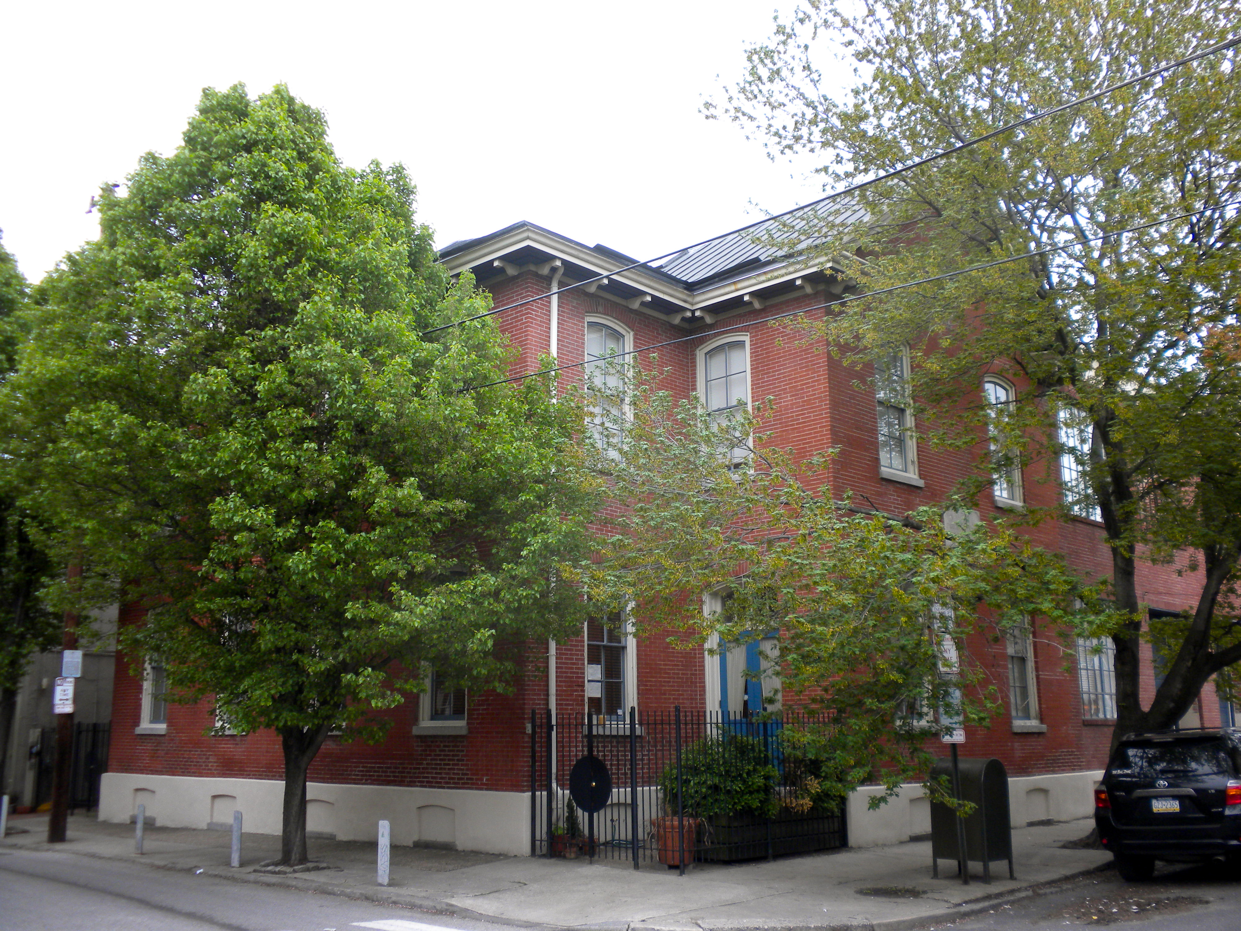 Robert Ralston School on NRHP since December 4, 1986. At 221 Bainbridge Street, Philadelphia in Queen Village neighborhood.